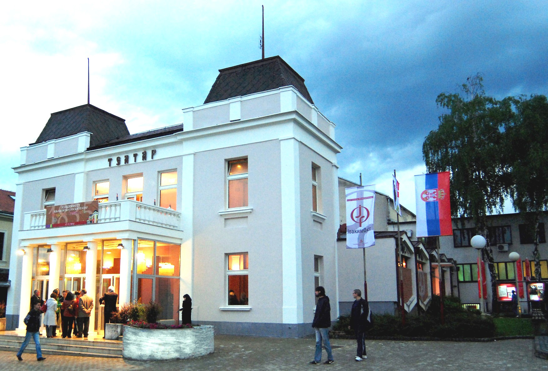 Image of Knjaževsko-srpski teatar in City of Kragujevac, Serbia